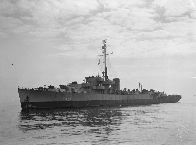 Photograph of British Colony class frigate HMS Somaliland, at Greenock.